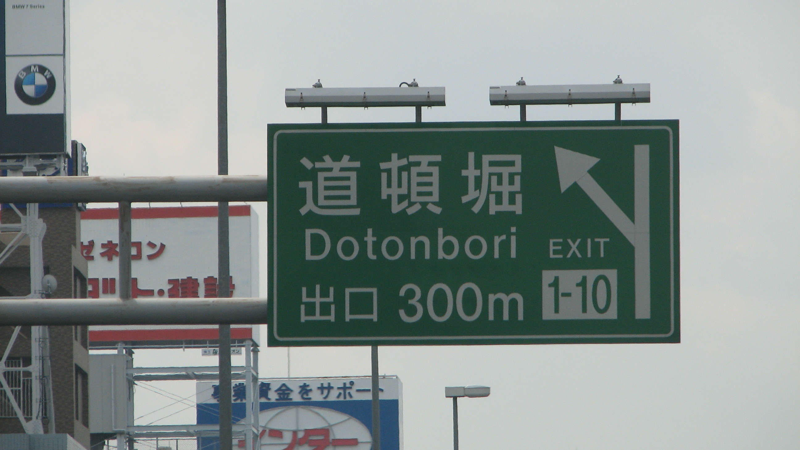 Hanshin Expressway Dōtonbori IC